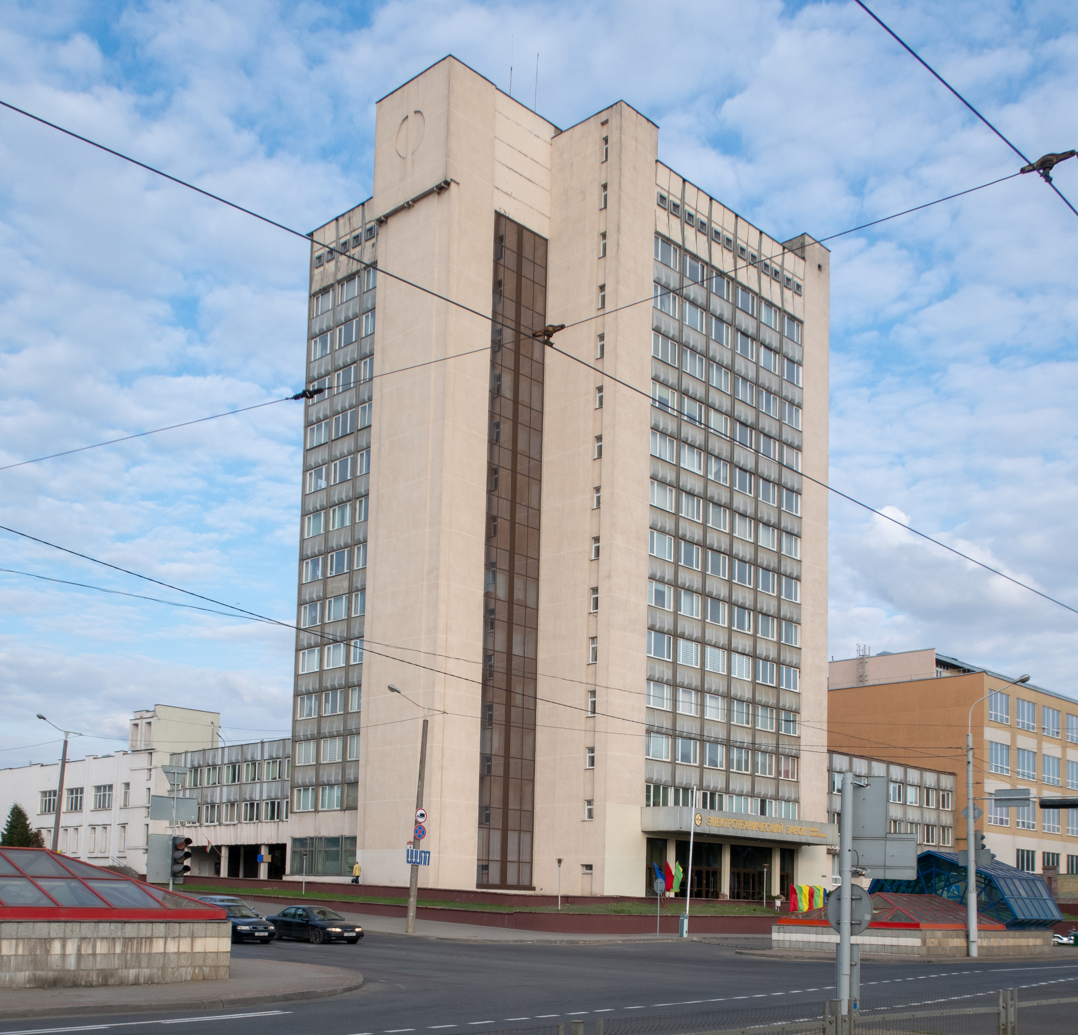 Minsk electrotechnical plant named after V. I. Kozlov. Manufacturer of transformers and other electrical machinery and equipment